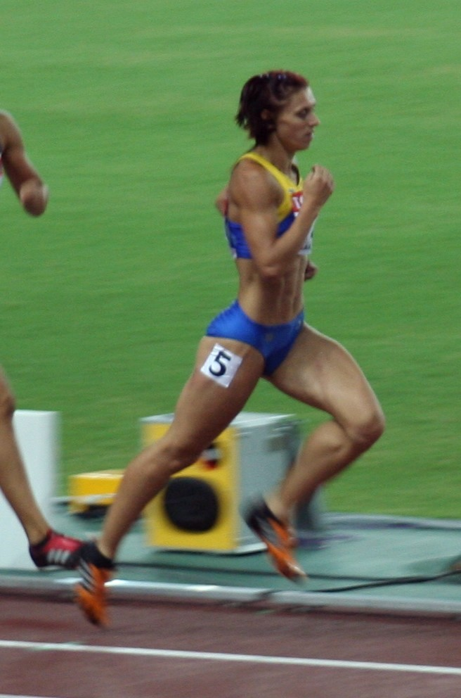 World Athletics Championships 2007 in Osaka - Lyudmila Blonska in the concluding 800 metres race of the women's heptathlon